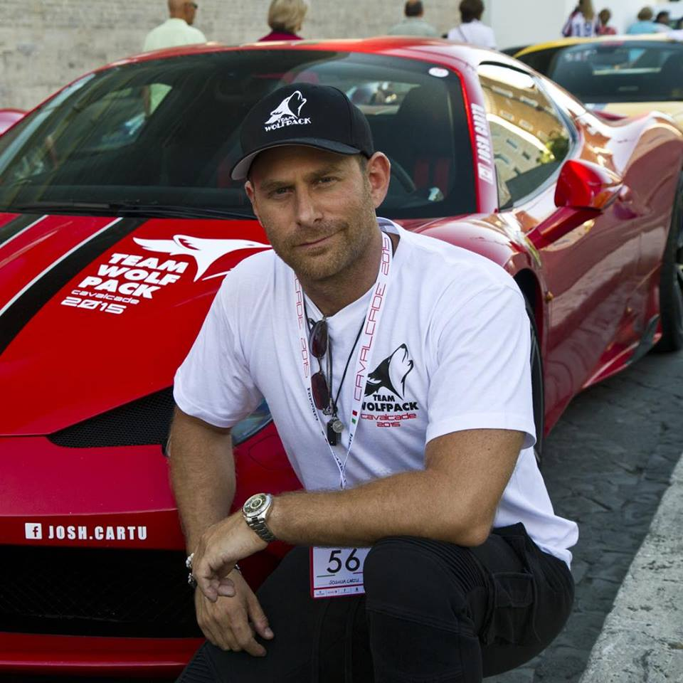 Josh Cartu next to his Ferrari